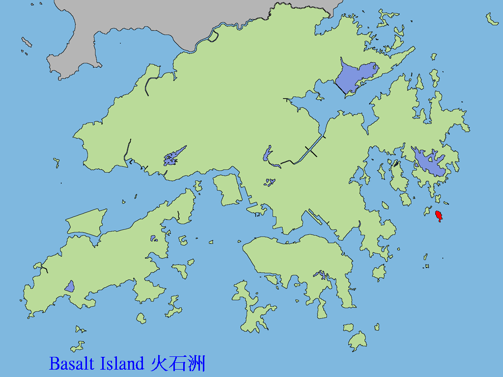 The Location of Basalt Isalnd, Hong Kong. 中文（香港）: 火石洲位置。